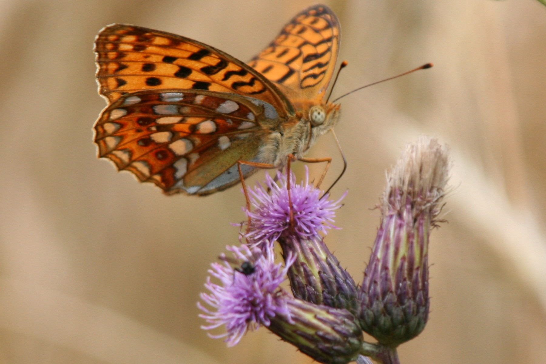 A High Brown Fritillary butterfly (Argynnis adippe), photographed in Wertheim-Bronnbach